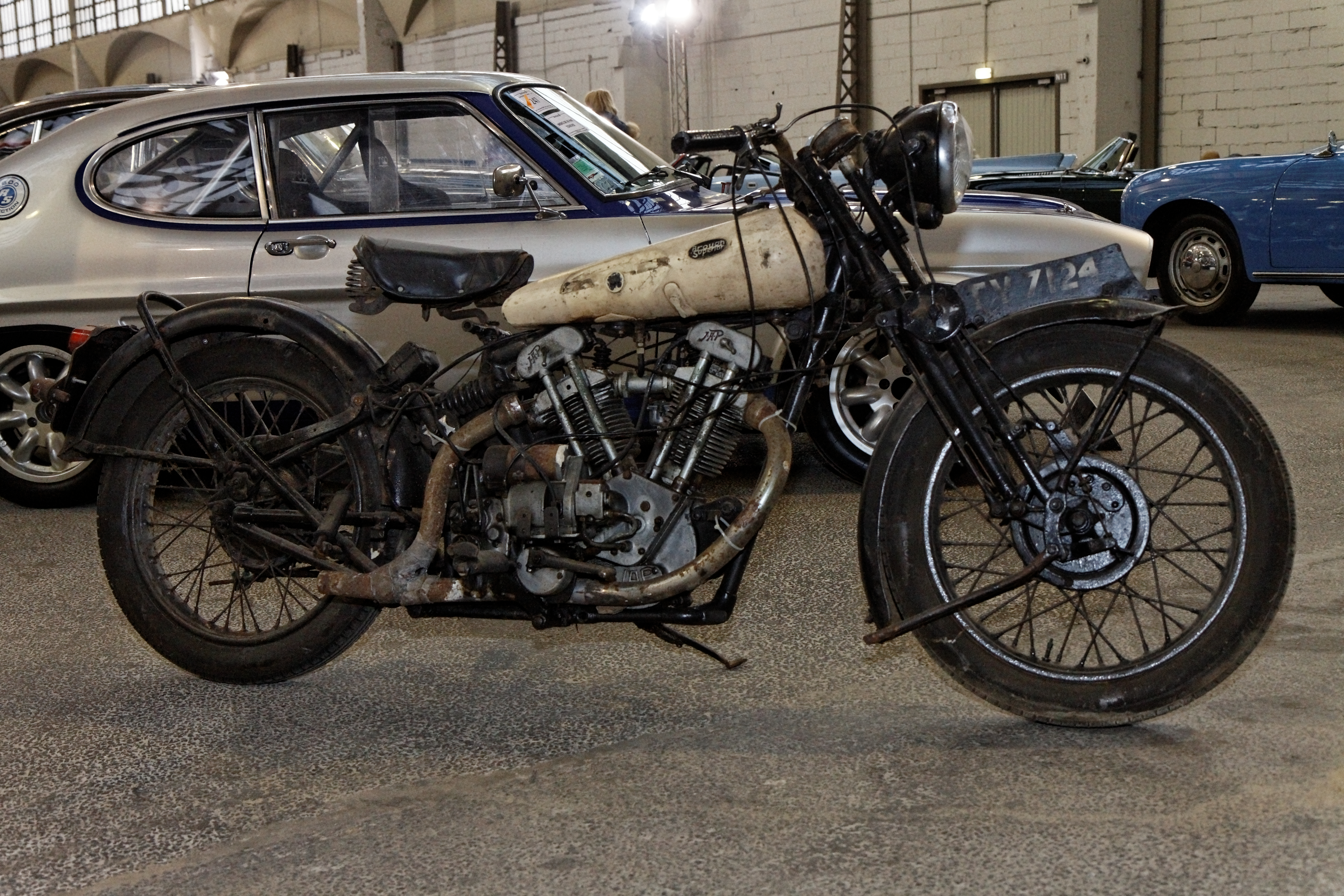 brough Superior Black Alpine 680